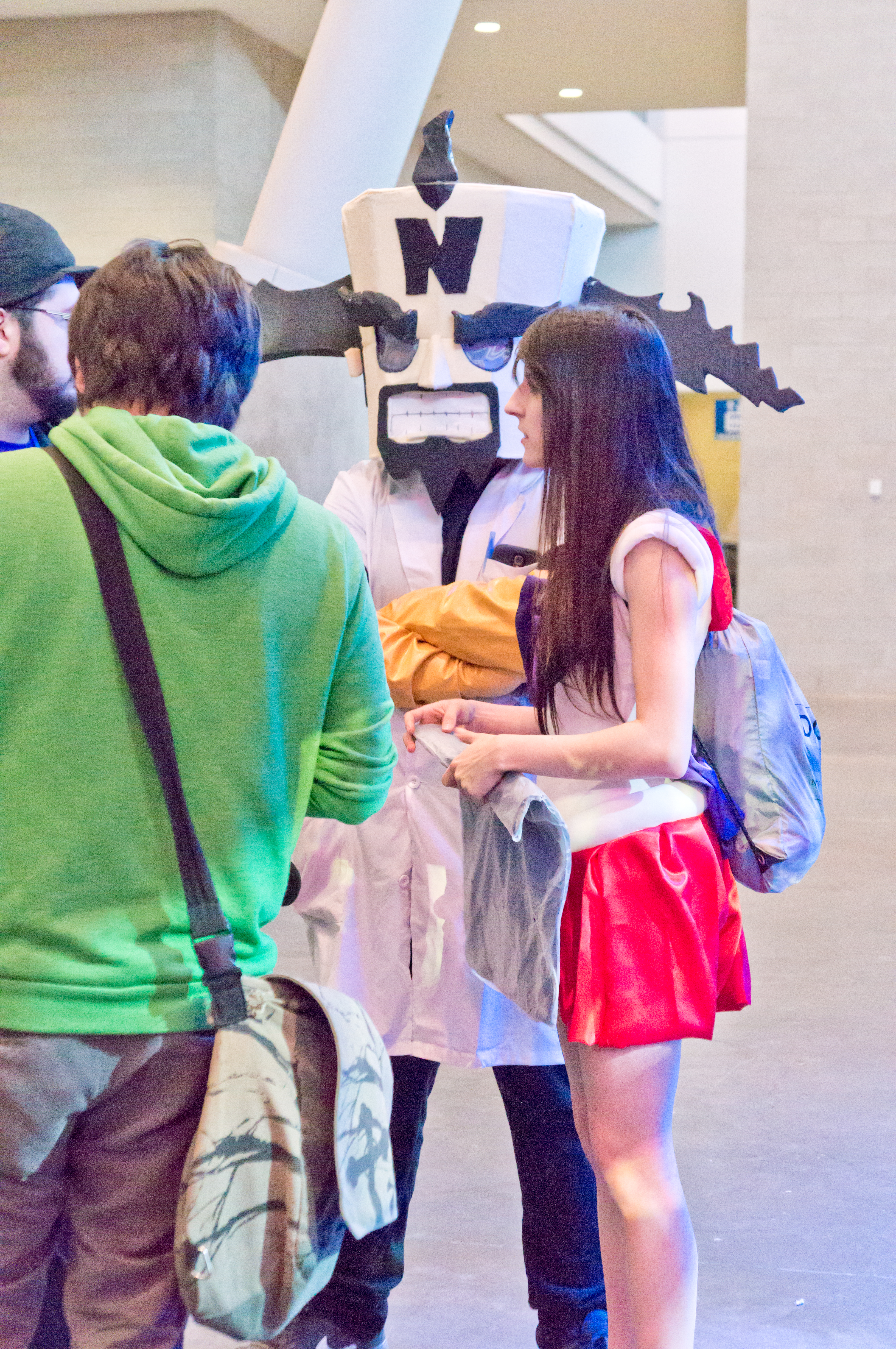 PAX East 2015 - Boston Convention and Exhibition Center